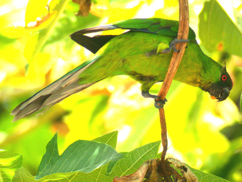 This Uvea Parakeet was photographed feeding on a papaya at the edge of forest